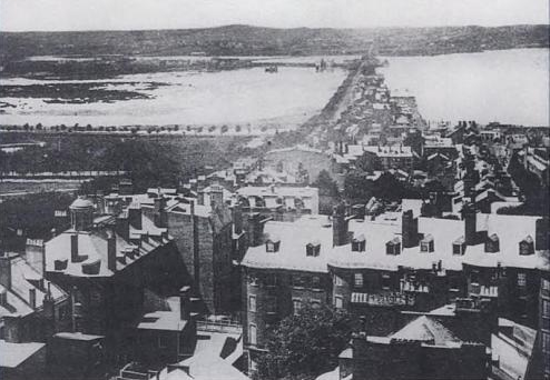 Back Bay, before 1858. Looking down from the top of Beacon Hill in Boston